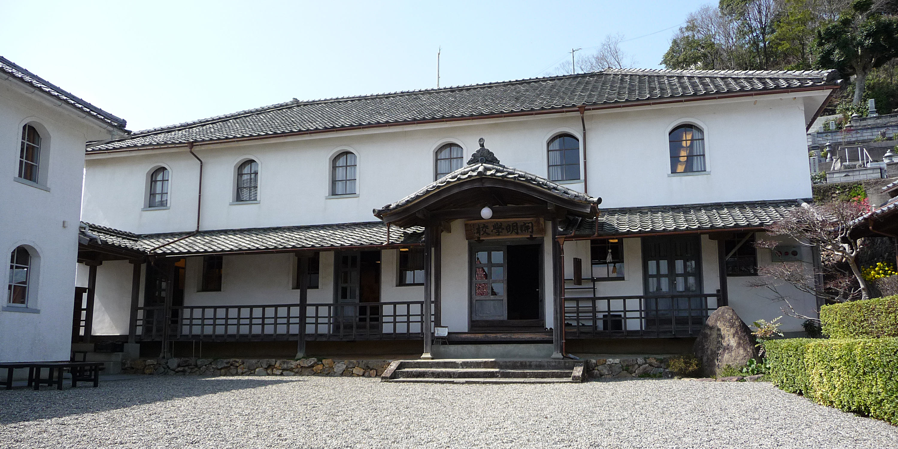 Kaimei Primary scool in Seiyo, Ehime prefecture, Japan.